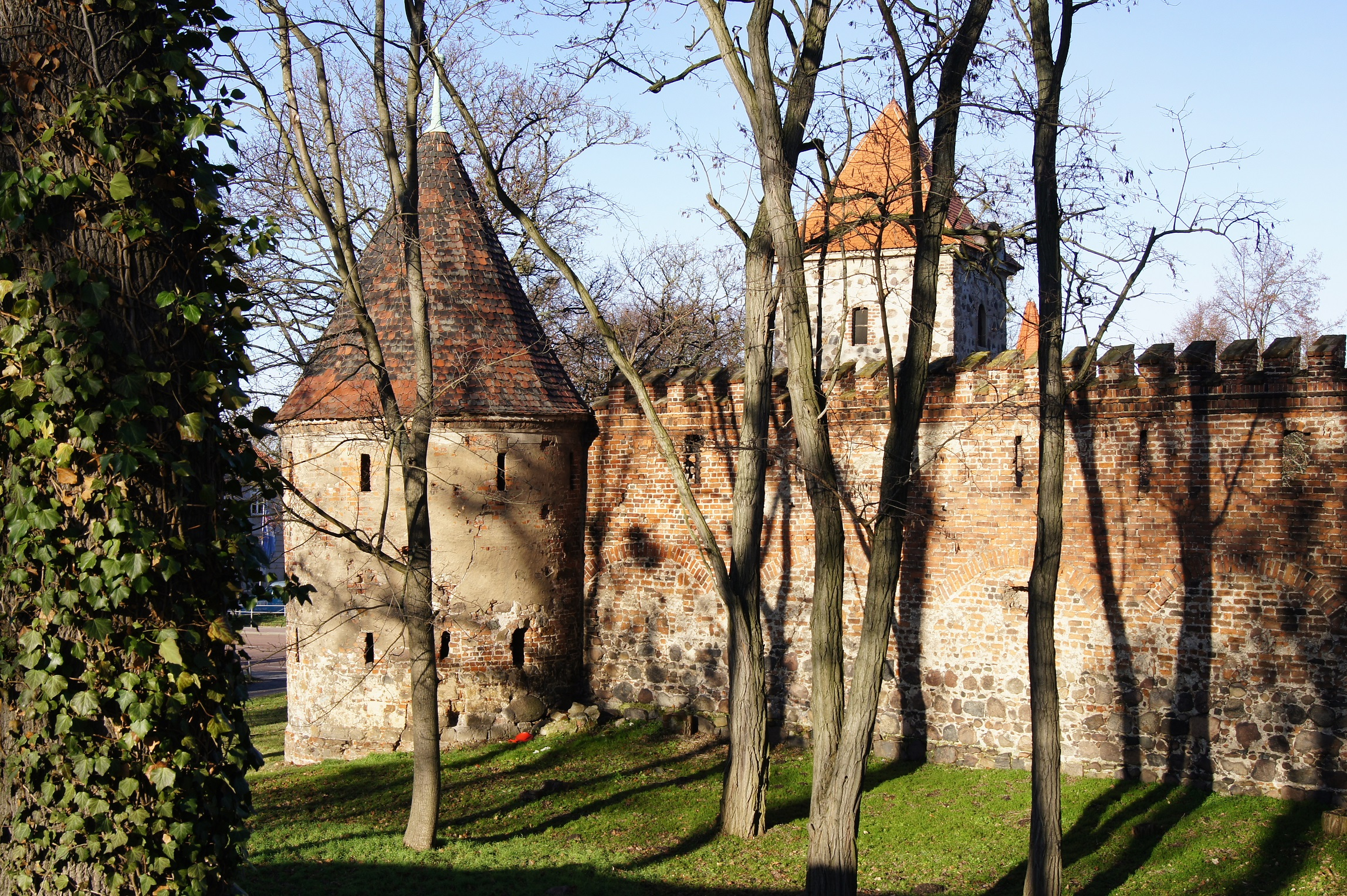 City wall at Breitestraßetor ("Broadstreetgate") in Zerbst/Anhalt, Saxony-Anhalt, Germany. View from castle garden to fortress tower "Kuchels Warte" ("Kuchels Observation Point") and the Dornburg Gate